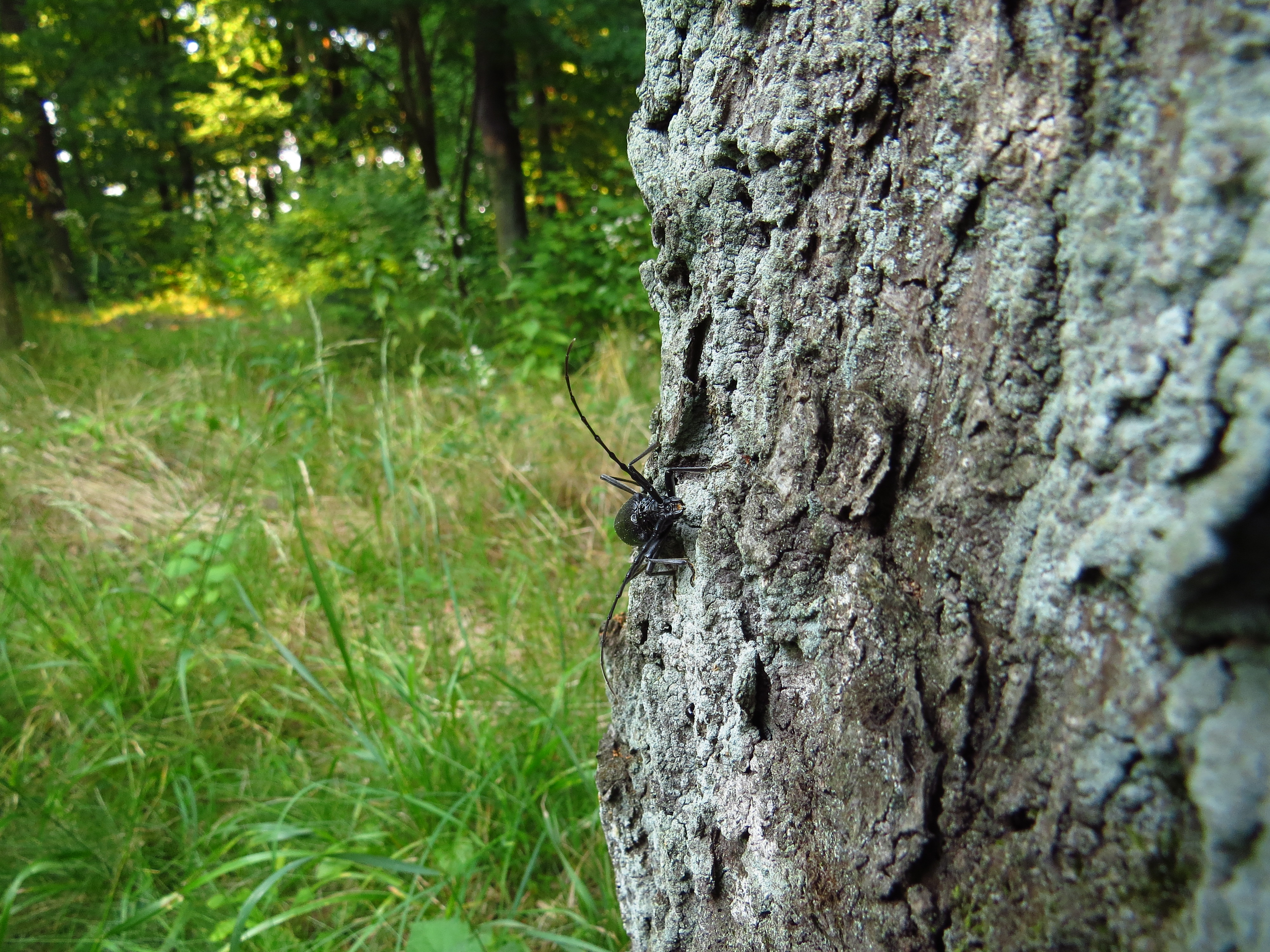 Great capricorn beetle (Cerambyx cerdo) on an oak at “Heldbockeichen” SAC (DE3544305) in the northern part of Potsdam; in the area grow pedunculate oaks (Quercus robur).[1][2]